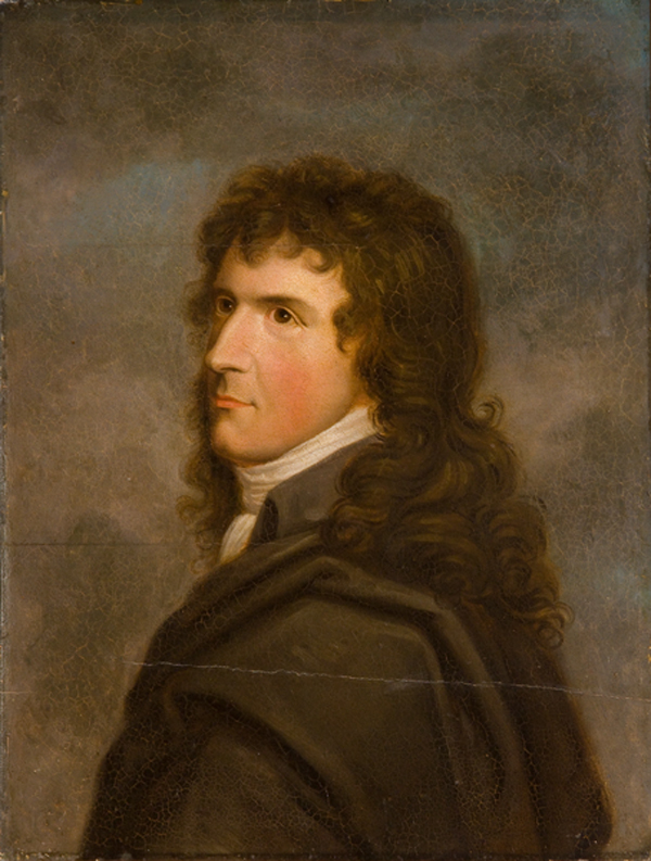 Baltic-German artist Karl von Kügelgen (1772-1832), portrait by his twin brother, Gerhard